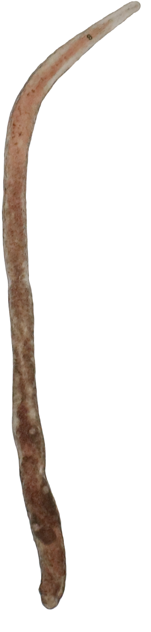 Light microscope photographs of live Nemertodermatida specimens (Sterreria rubra) in squeeze preparation